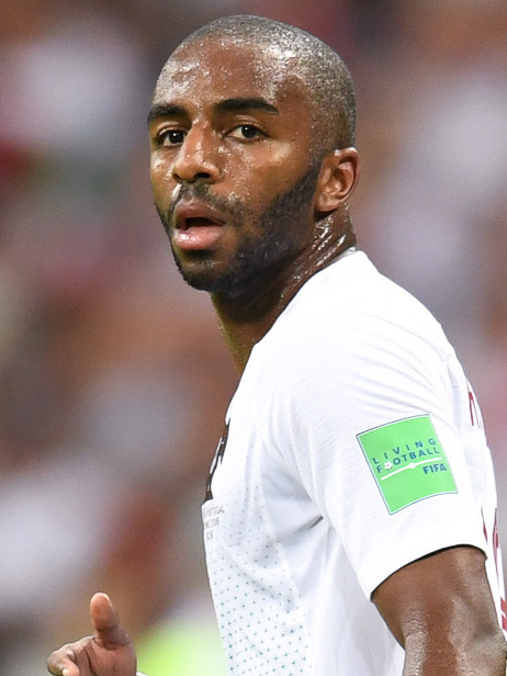 Portuguese footballer Ricardo Pereira on 30 June 2018, during the 2018 FIFA World Cup Round of 16 match between Uruguay and Portugal.